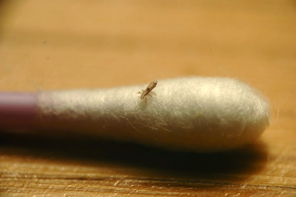 Pediculus humanus capitis, Head louse